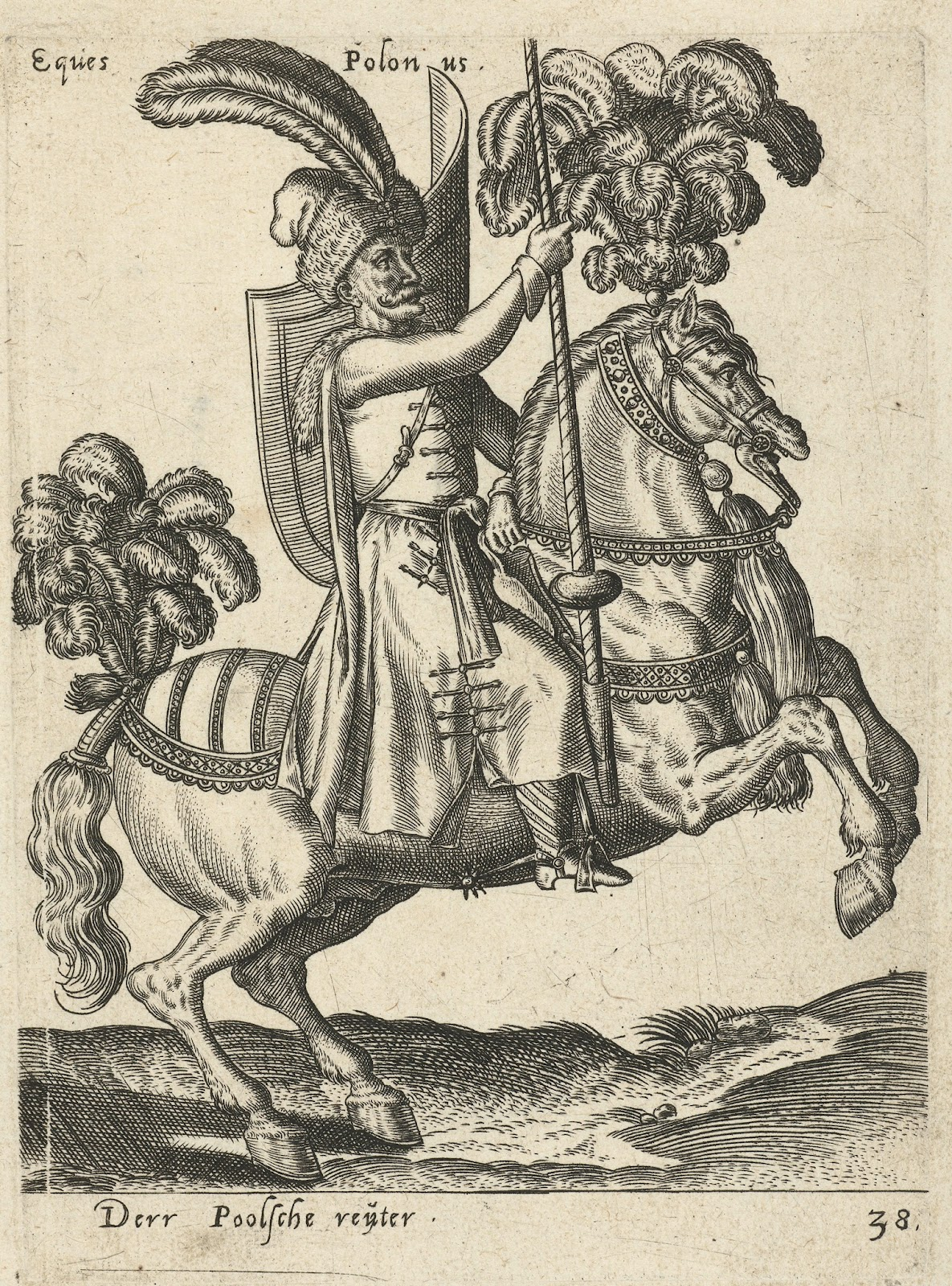 Polish hussar